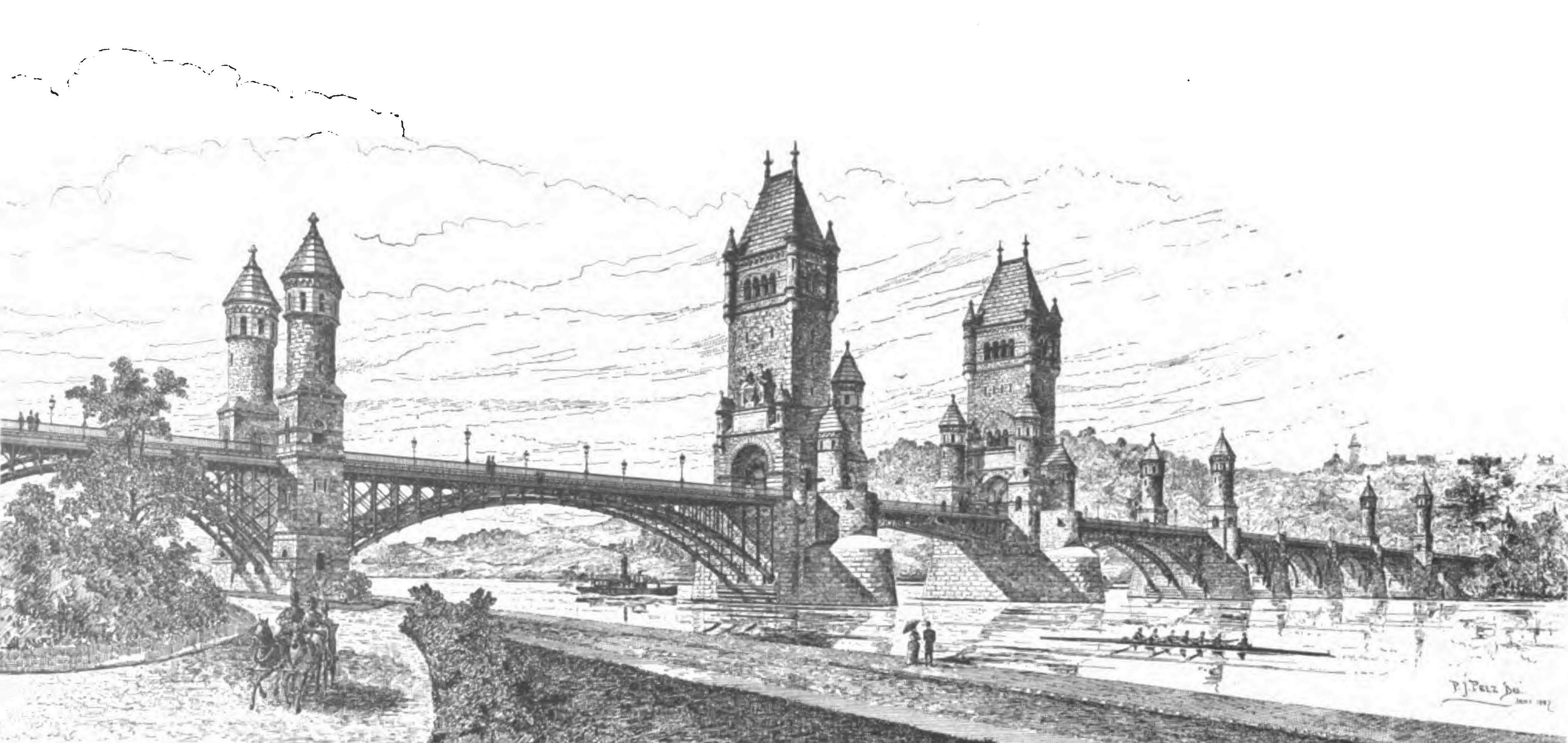 A design for a Memorial Bridge over the Potomac River in Washington, D.C., in the United States. This design, by Paul Johannes Pelz and Captain T. W. Symonds (of the U.S. Army Corps of Engineers), was published produced from 1886 to 1887 after the U.S. Congress authorized design of a bridge. This structure was intended to be built halfway between what is now Arlington Memorial Bridge and the Francis Scott Key Bridge. It was to be dedicated to General Ulysses S. Grant. This bridge was never built. Instead, the Arlington Memorial Bridge was designed and constructed from 1925 to 1932. Its location is downstream from where the Pelz/Symonds bridge would have been located.